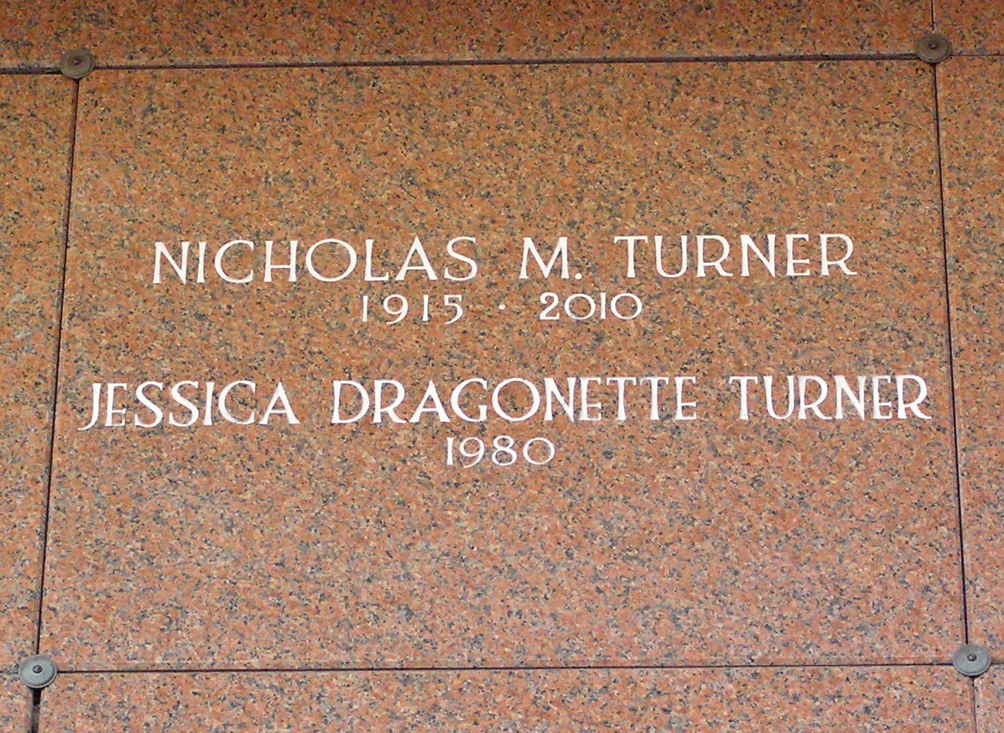 The crypt of Jessica Dragonette Turner at Our Lady Queen of Peace Mausoleum in Gate of Heaven Cemetery. Due to the uncertainty of Dragonette Turner's year of birth, only her year of death is inscribed on the crypt. If you read the biography, you will see that her year of birth is between 1900 and 1905.